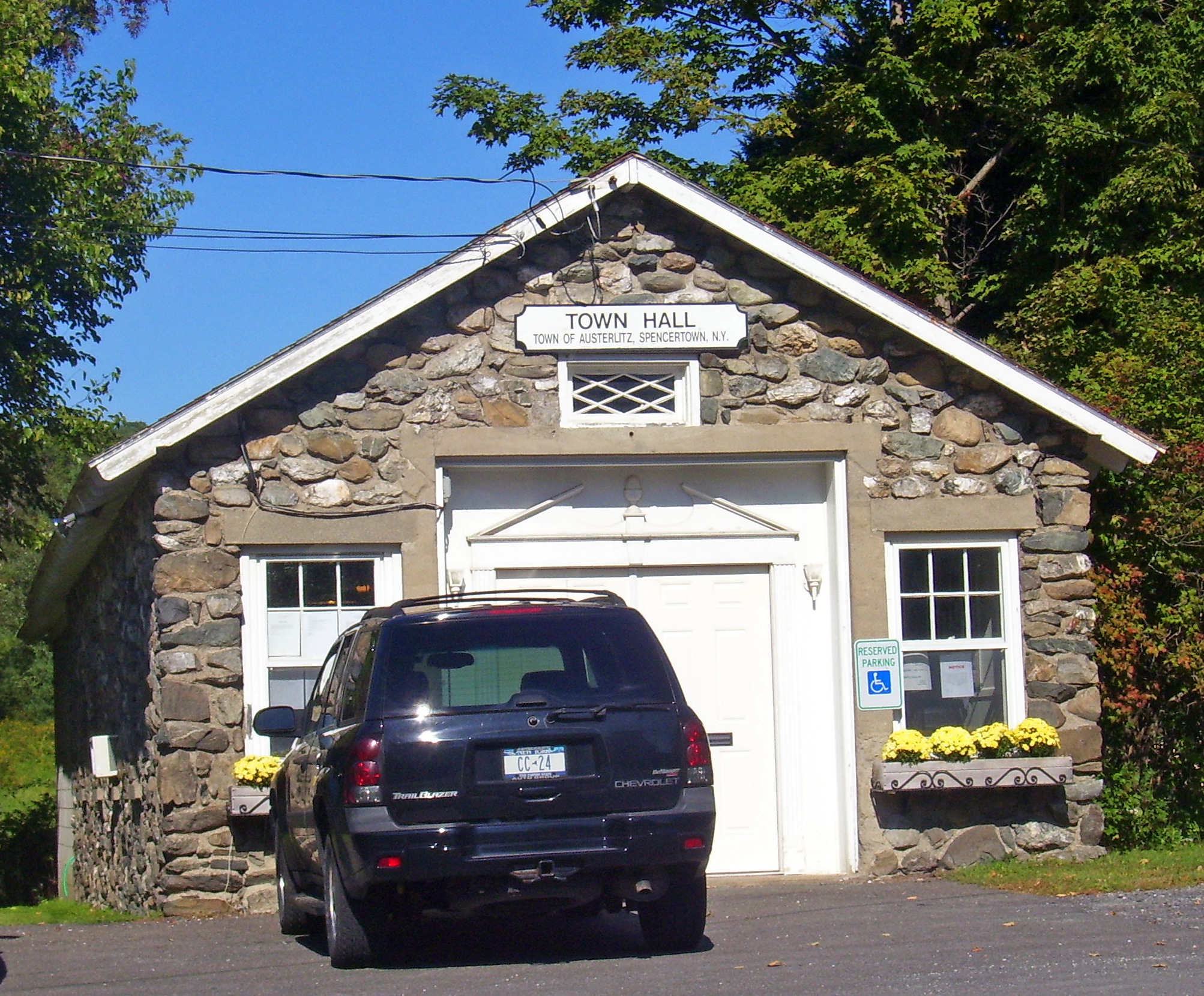 Town hall, Austerlitz, NY, USA